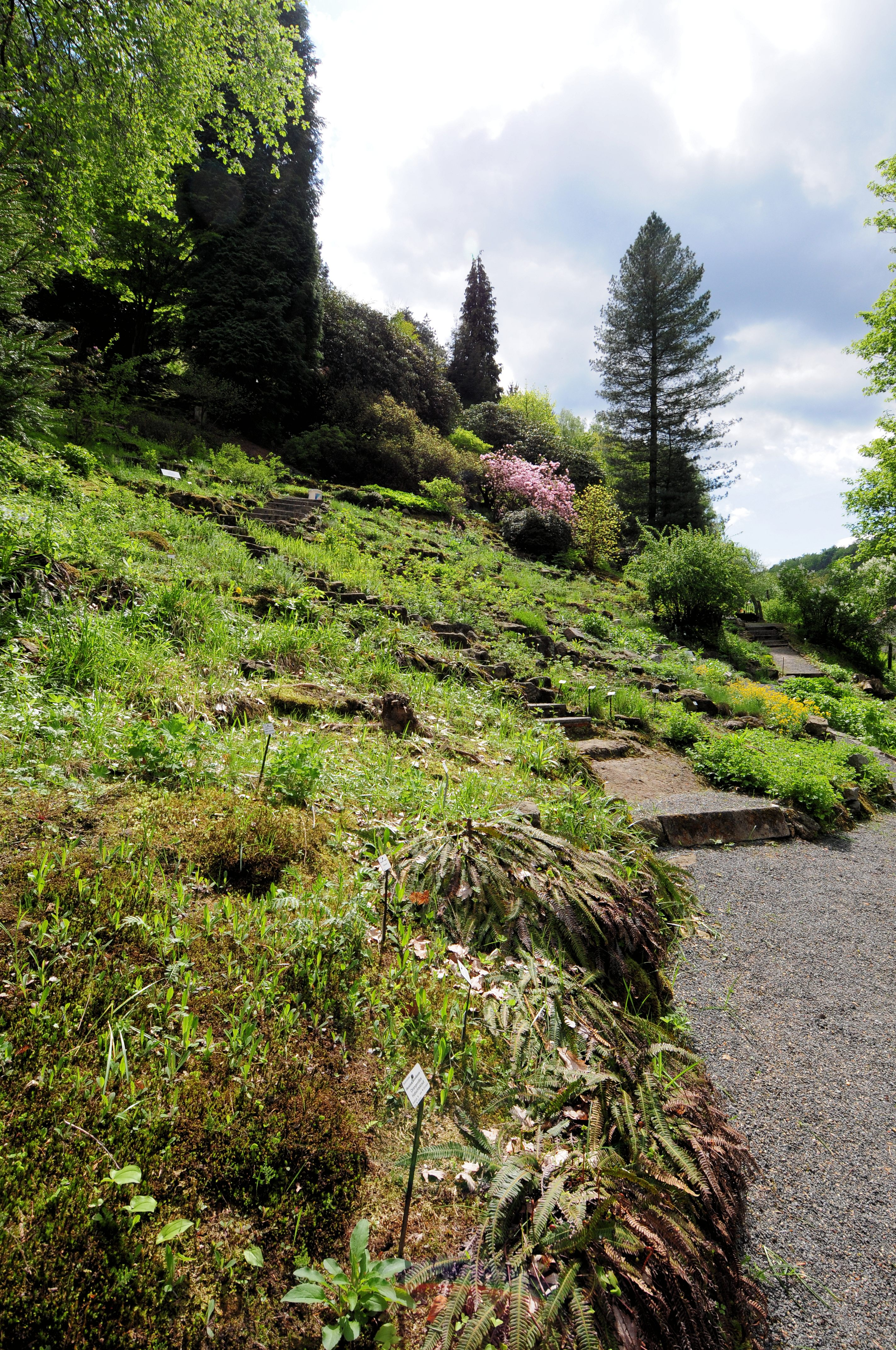 Botanic garden of Bad Schandau (district Saxon Switzerland-East Ore Mountains, Free State of Saxony, Germany)